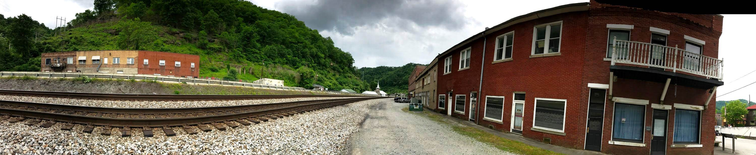 Panorama of Matewan WV Historic District